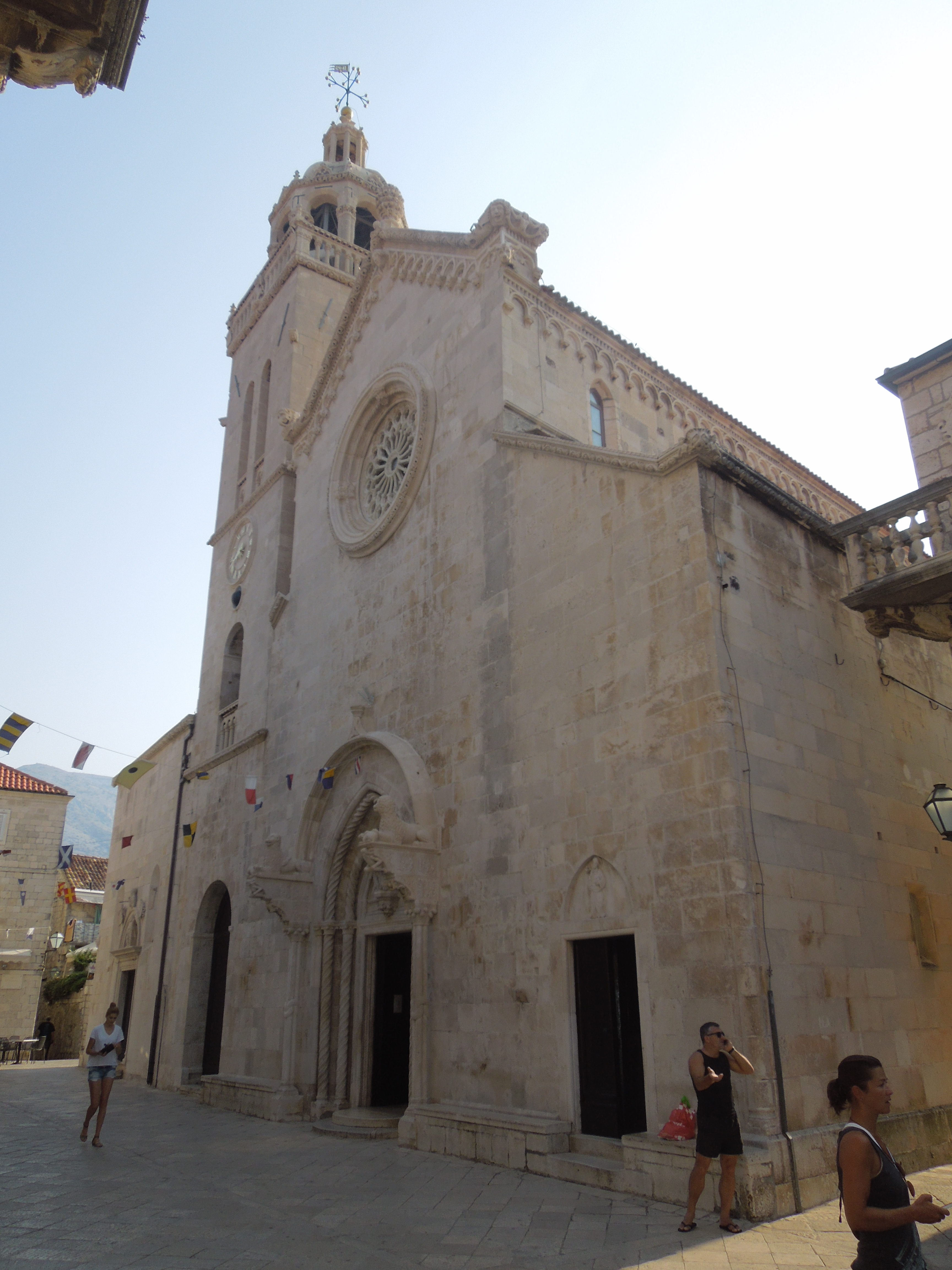 Korcula: St. Mark's Cathedral